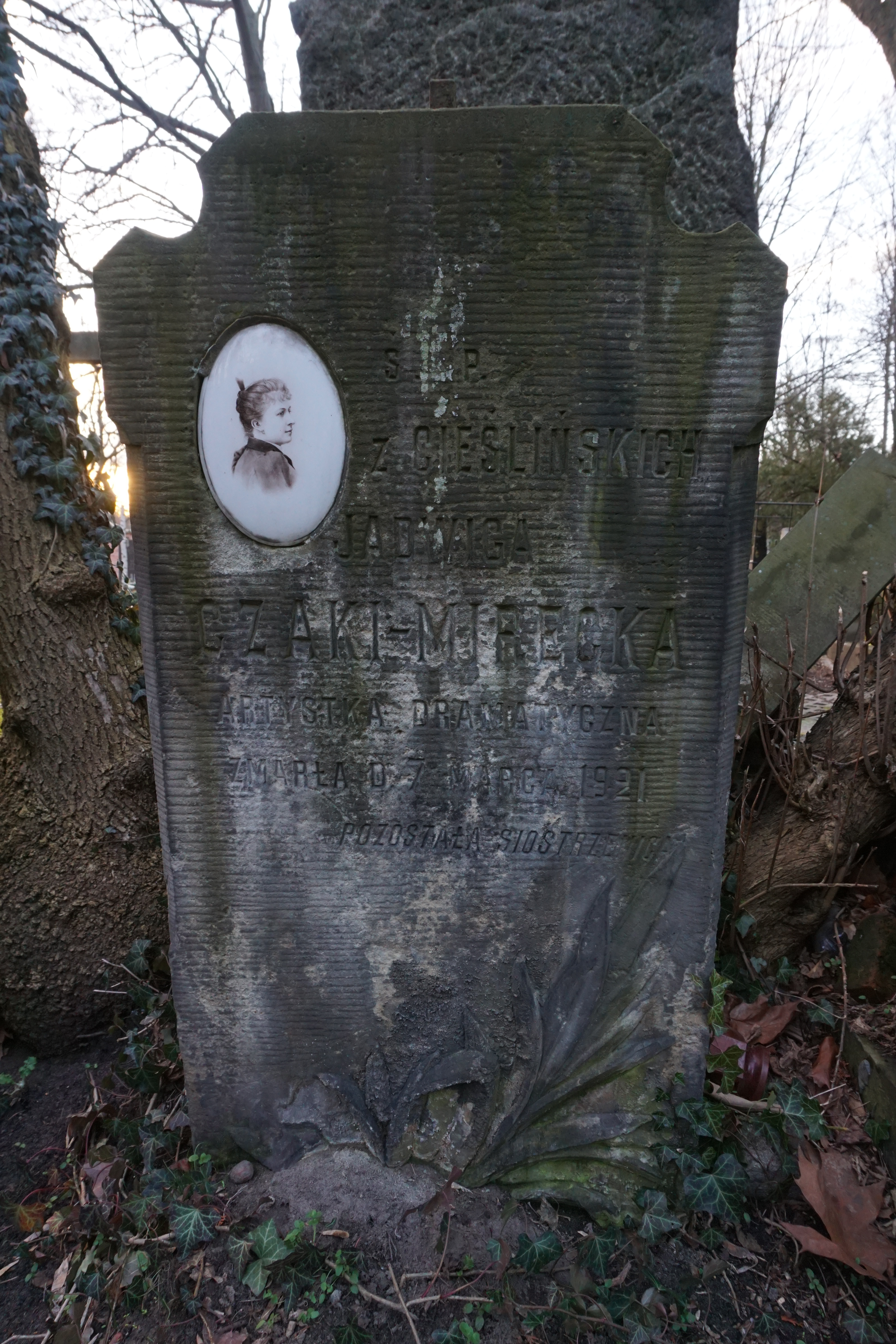 The grave of Jadwiga Czaki at the Powązki Cemetery (section 171, row 3, grave 19)